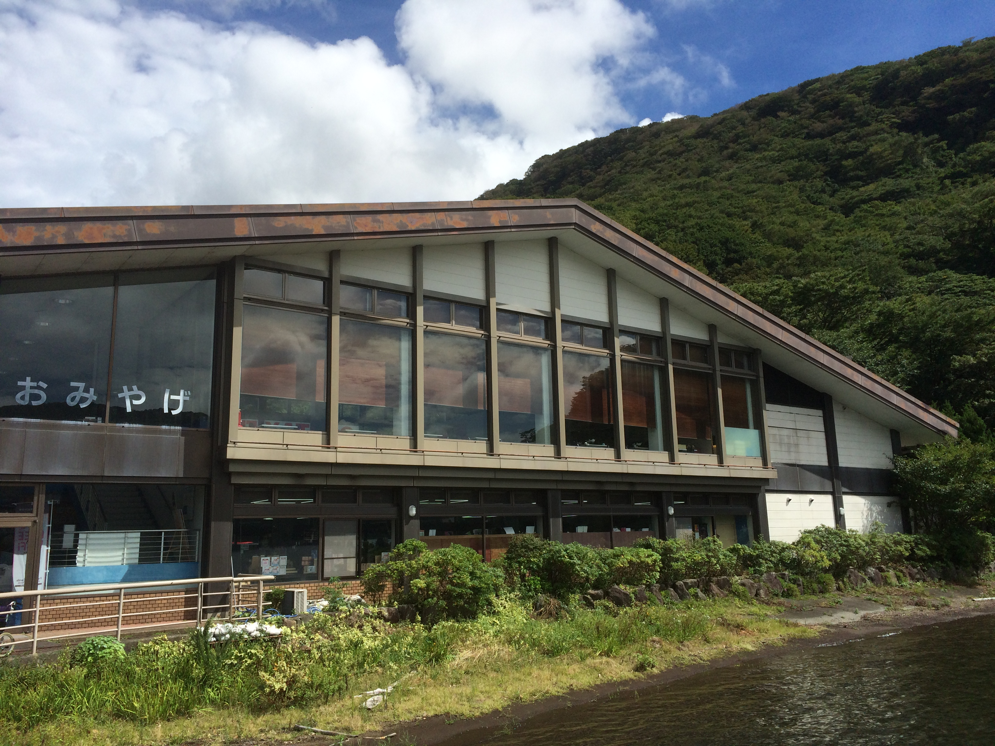 Kojiri Terminal(Port) by Izu-Hakone-Group